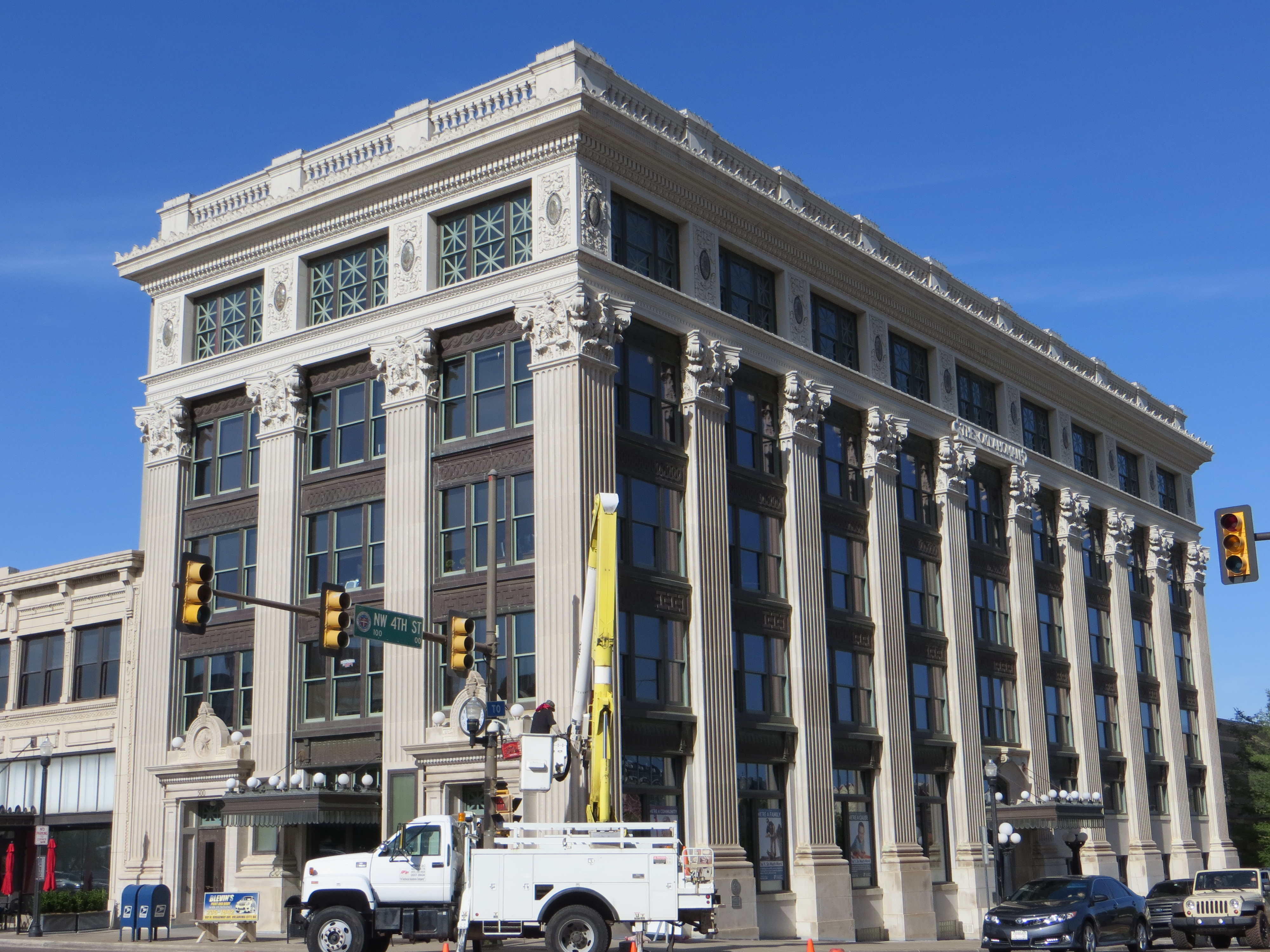 Oblique view of Oklahoma Publishing Company building, 500 N. Broadway, Oklahoma City, Oklahoma, USA